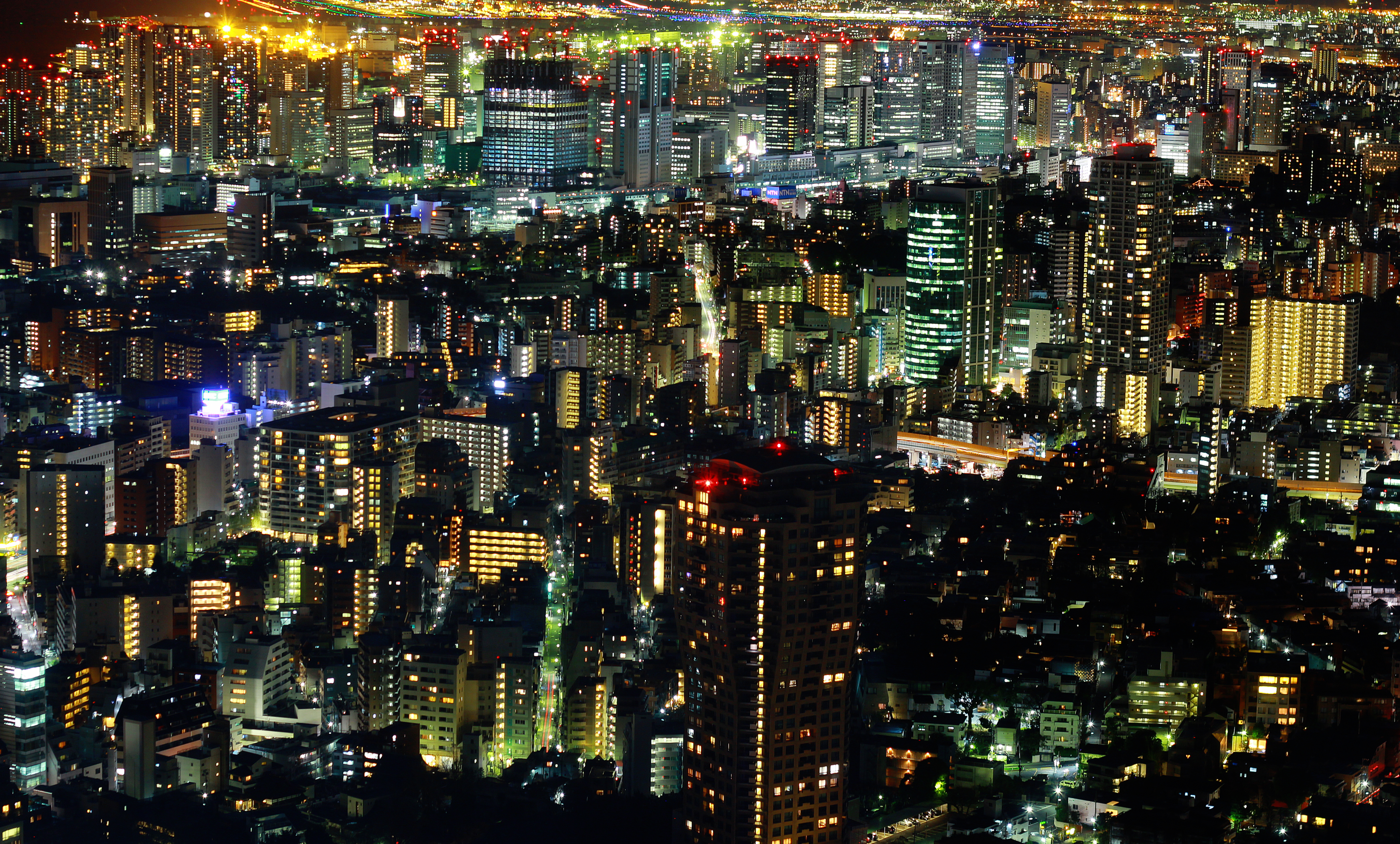 View over Tokyo from the Mori Tower (Roppongi Hills)